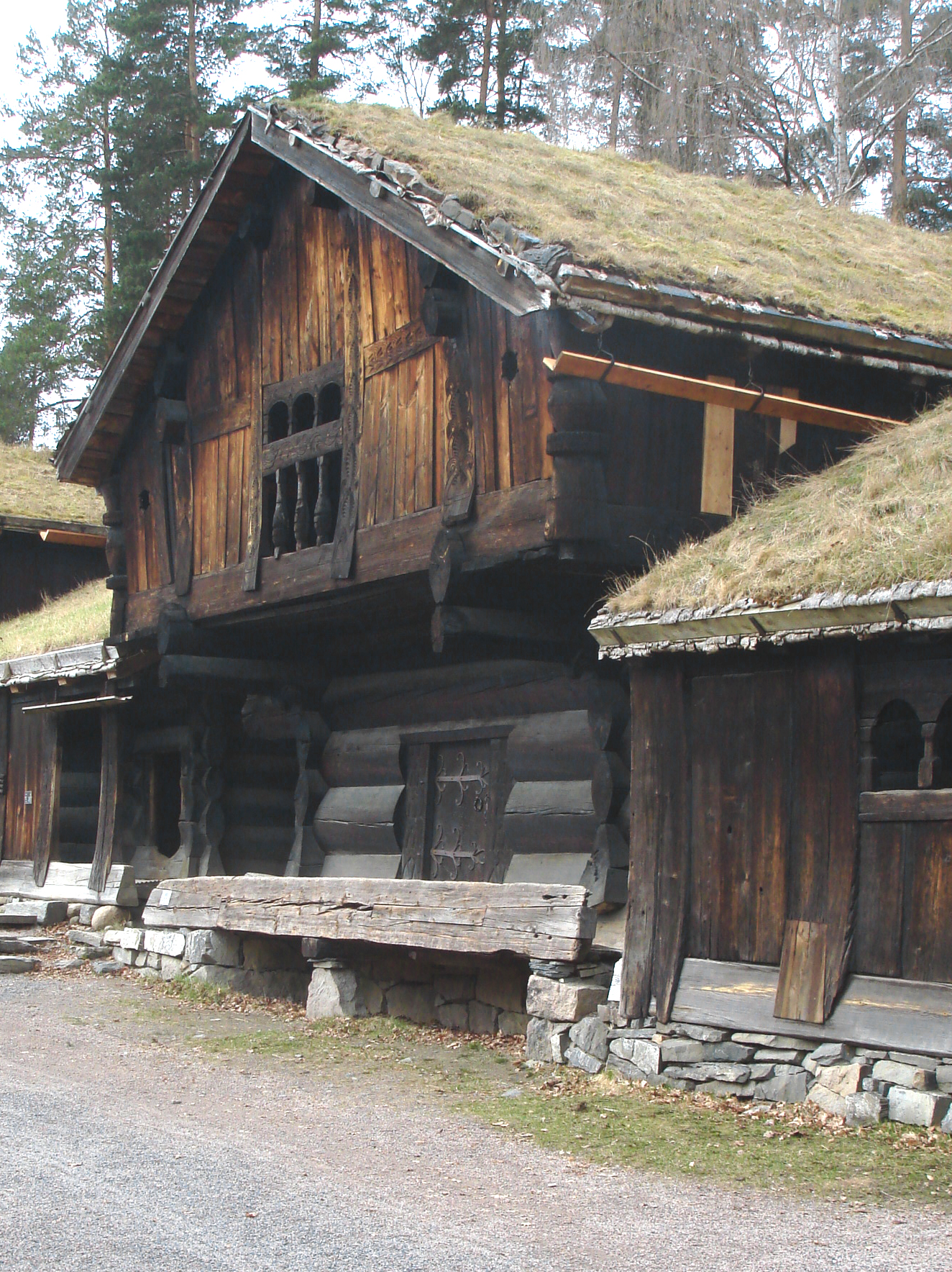 Loft from Ose, Setesdal, ca 1700. Now at the Norsk Folkemuseum